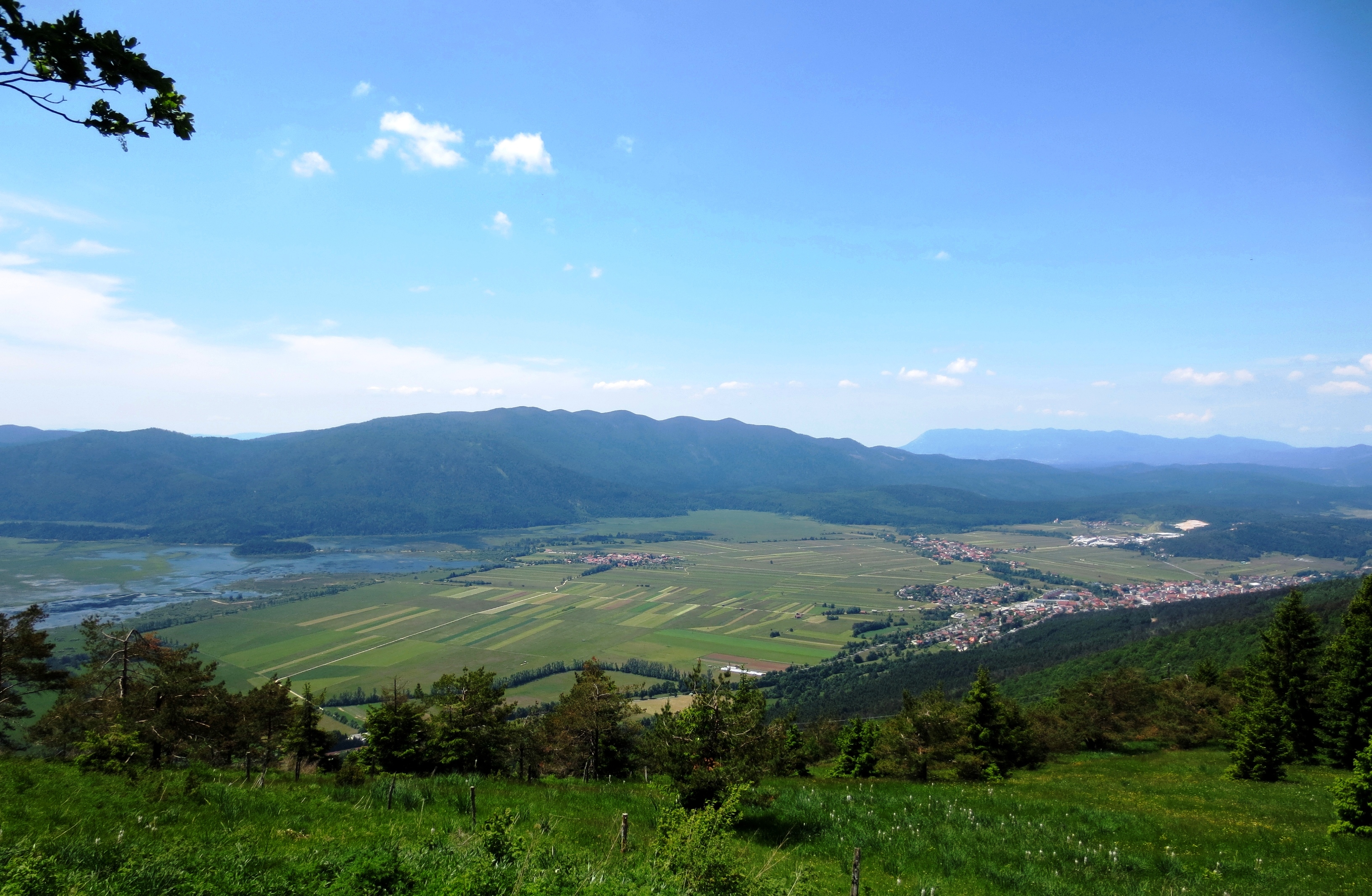 Slivnica&Cerkniško jezero